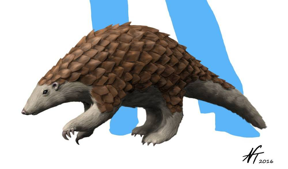 Life reconstruction of Eomanis waldi